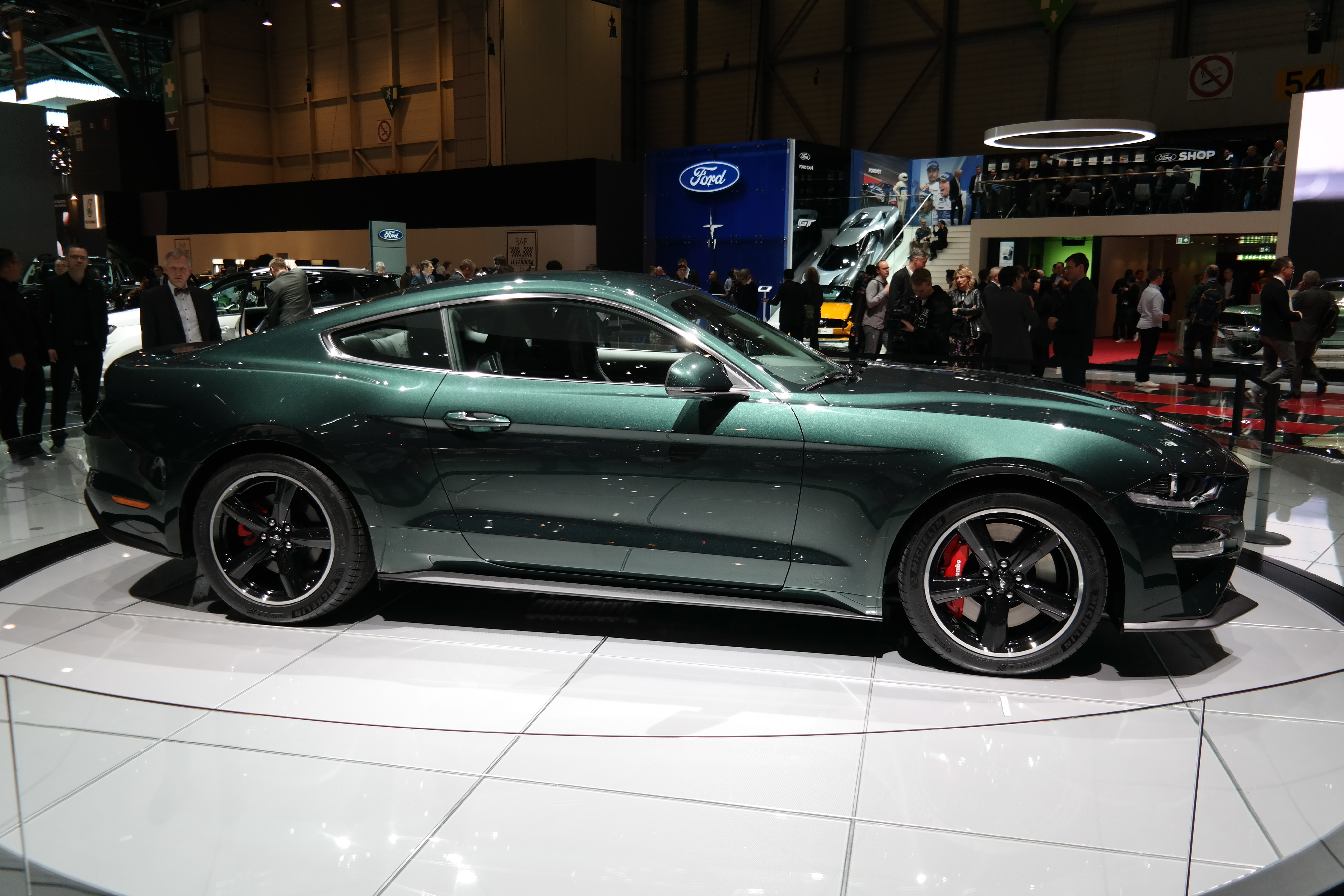 Geneva Motor Show 2018 (photo taken on the first press day)